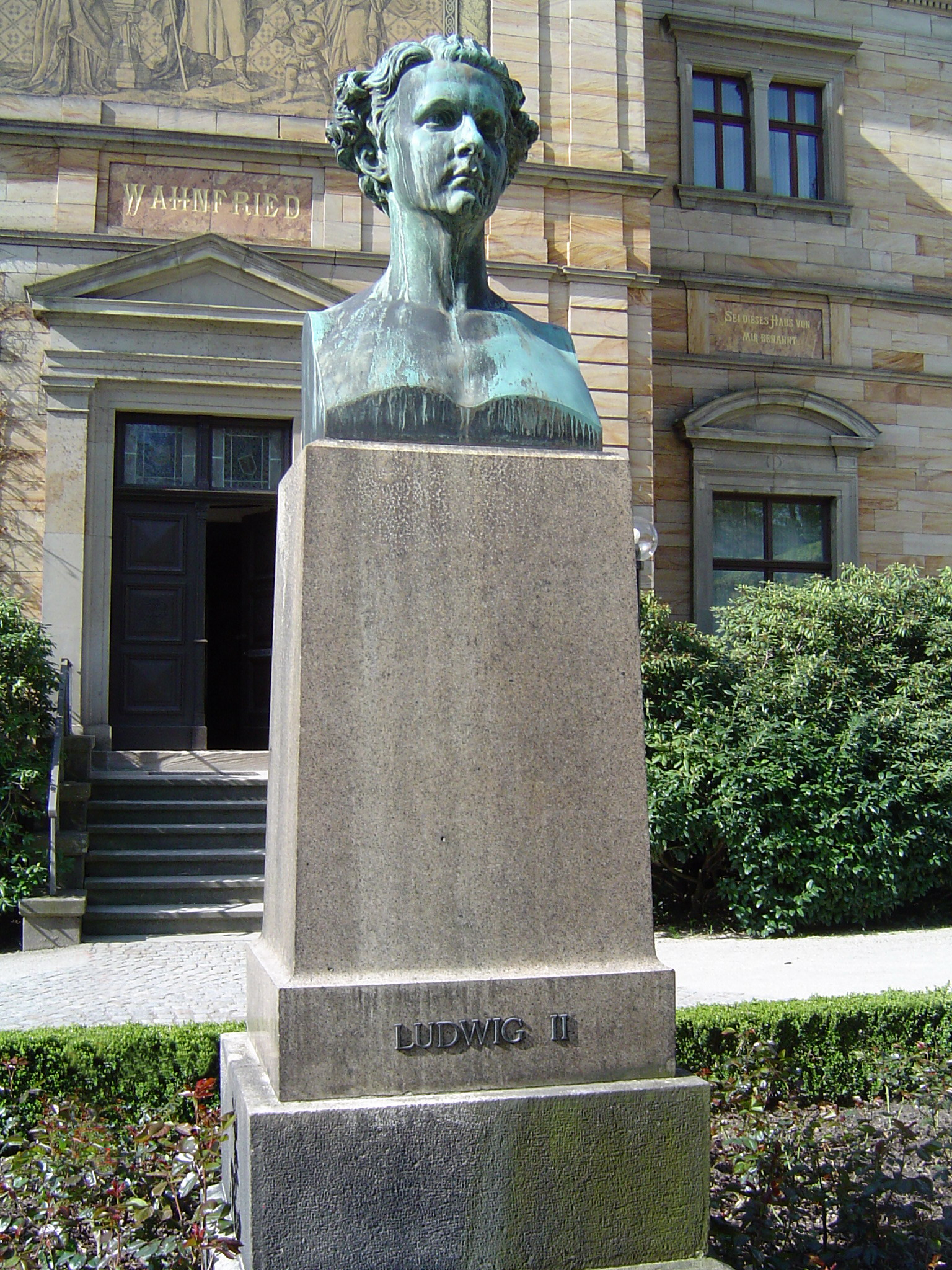 Bust of Ludwig II of Bavaria in front of Wahnfried House in Bayreuth (Bavaria)